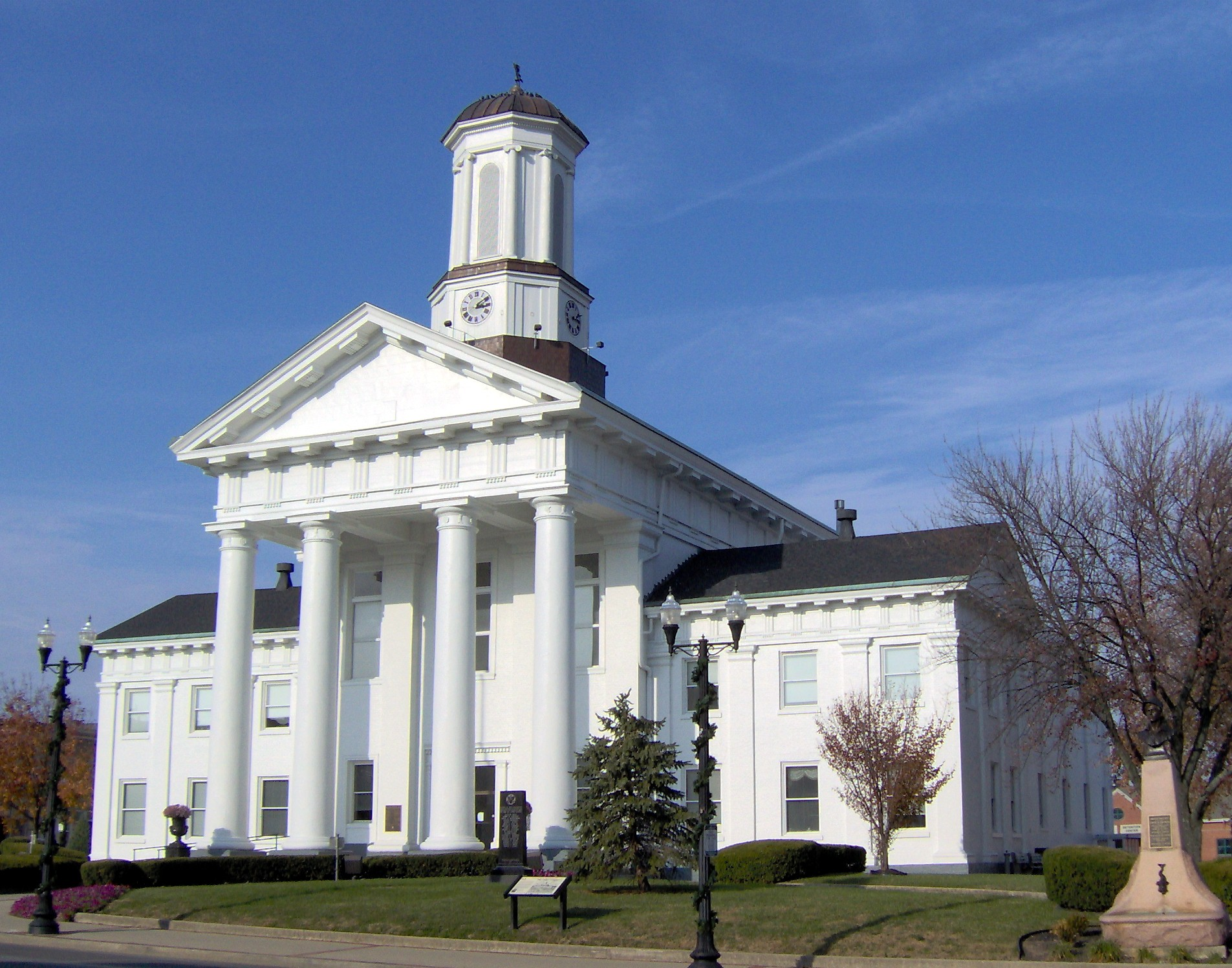 Image of Madison County, Kentucky courthouse located at 101 West Main Street, Richmond, Kentucky.